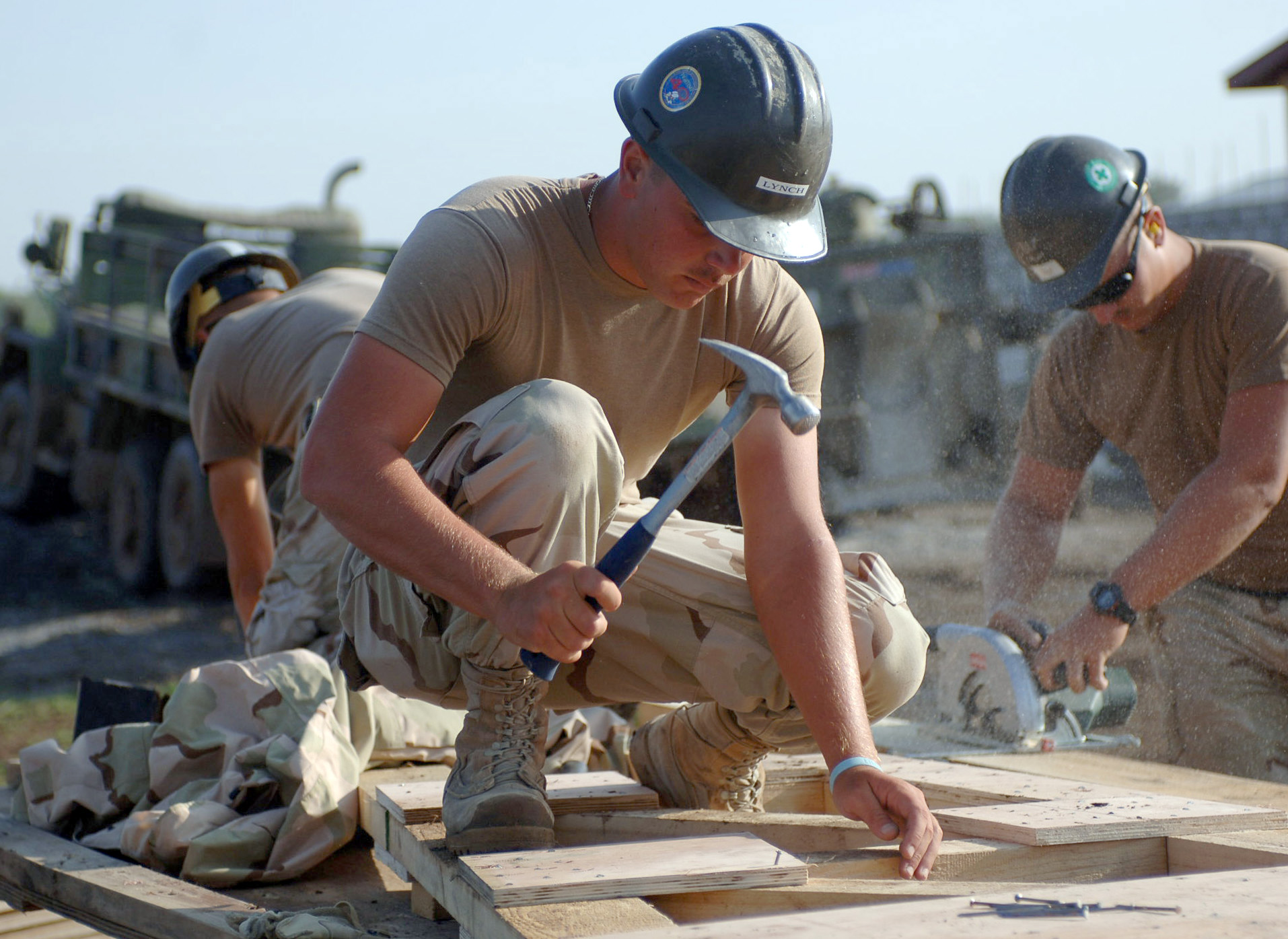 CHARICHCHO, Ethiopia (Oct. 6, 2007) - Builder Constructionman Christopher Lynch, of Naval Mobile Construction Battalion (NMCB) 40, Det. Horn of Africa (HOA), hammers nails into the roof for the Charichcho Primary School. NMCB-40 Det. HOA is in the middle of a deployment supporting the Combined Joint Task Force-HOA mission to prevent conflict, promote regional stability, protect coalition interests, and prevail against extremism in east Africa and Yemen. U.S. Navy photo by Mass Communication Specialist 1st Class Mary Popejoy (RELEASED)